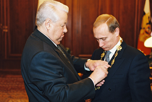 THE KREMLIN, MOSCOW. President Boris Yeltsin handing the Presidential Emblem to Vladimir Putin.